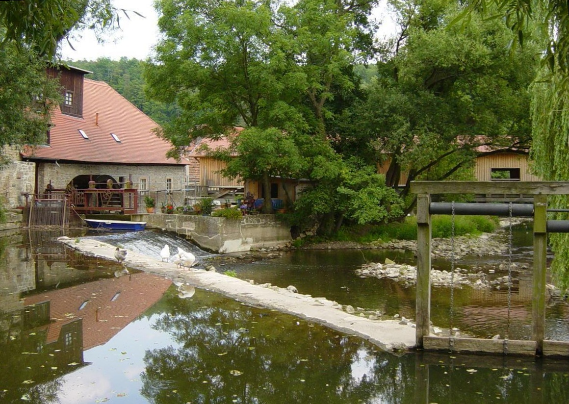 Water mill at the Ilm river in Buchfart near Weimar